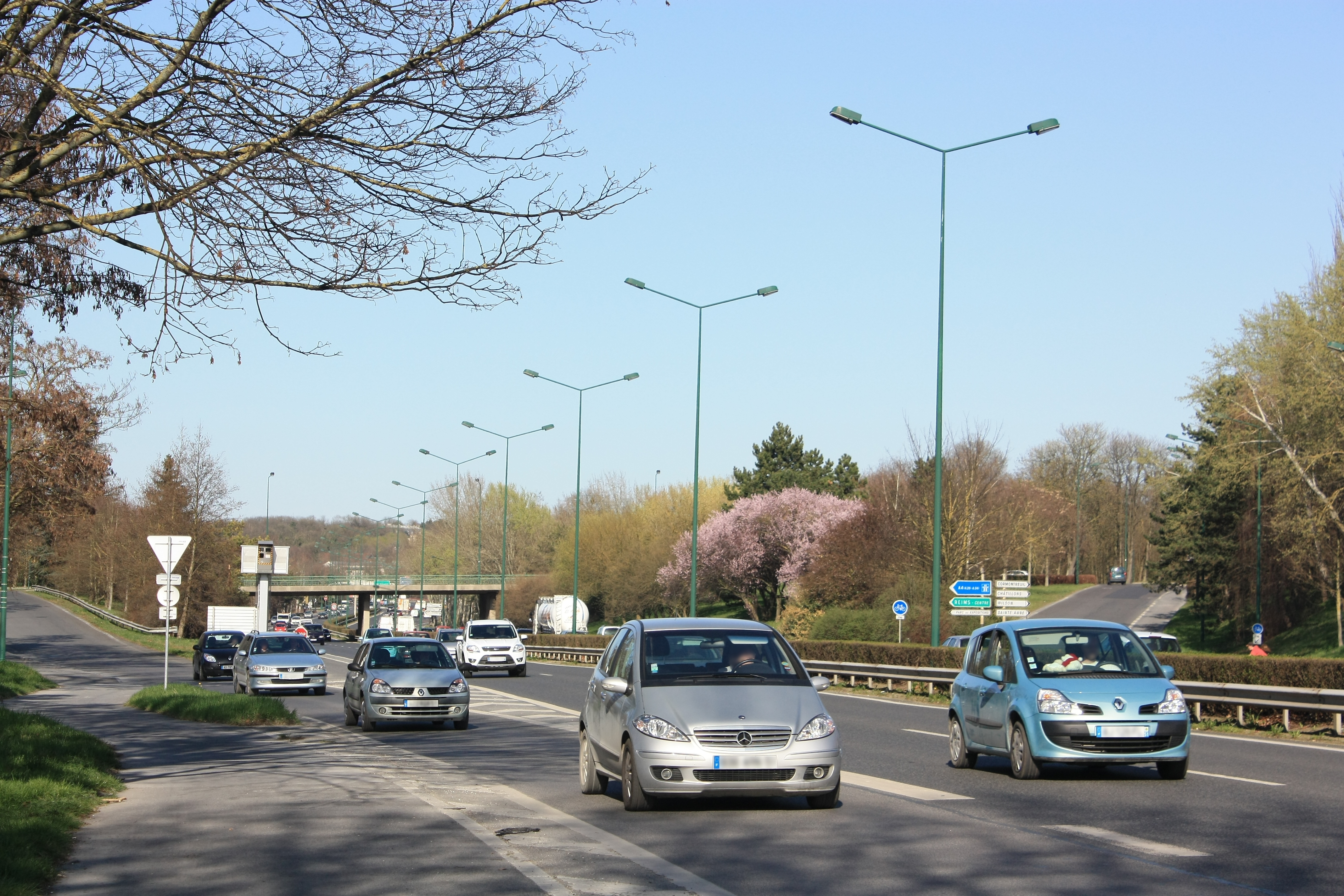 French national route N51 South of Rheims